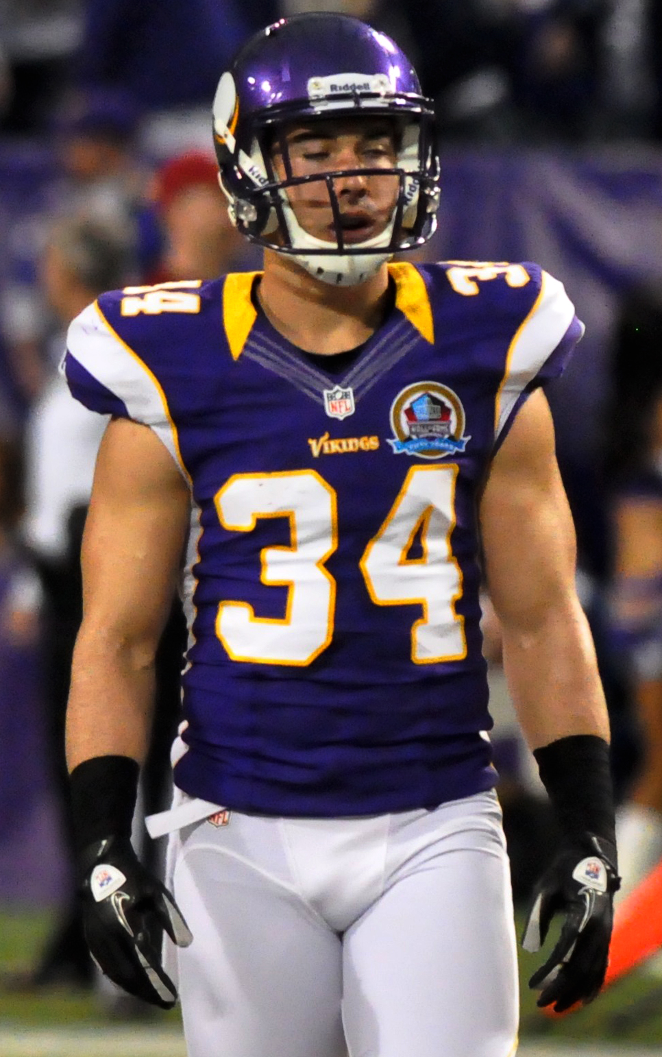 Minnesota Vikings free safety Andrew Sendejo